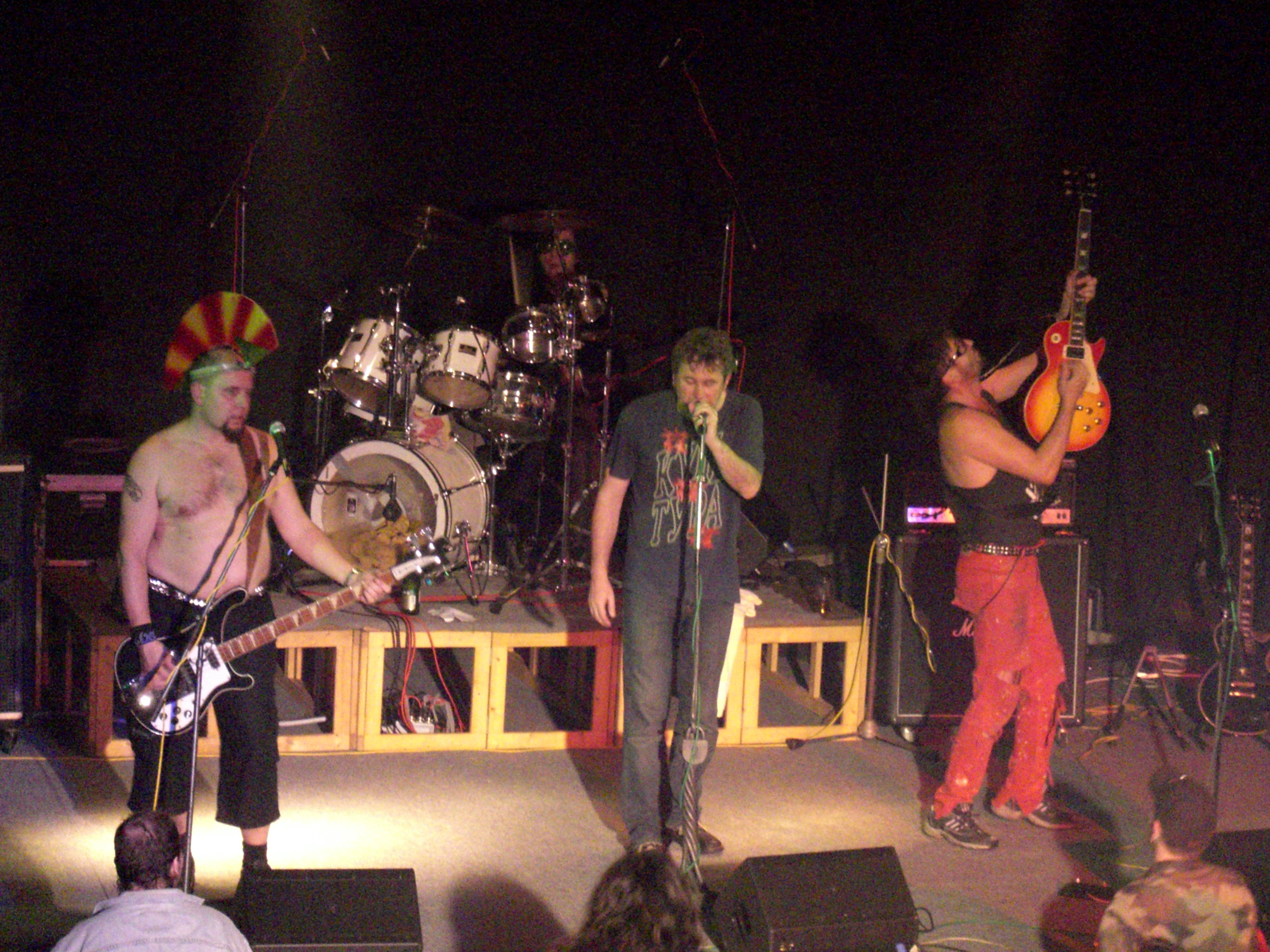 Czech legendary punk music grup Visací zámek in rock club Divadlo pod Čarou, Písek, 27.1.2007